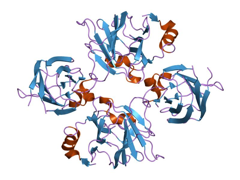 Cartoon representation of the molecular structure of protein registered with 1sg3 code.